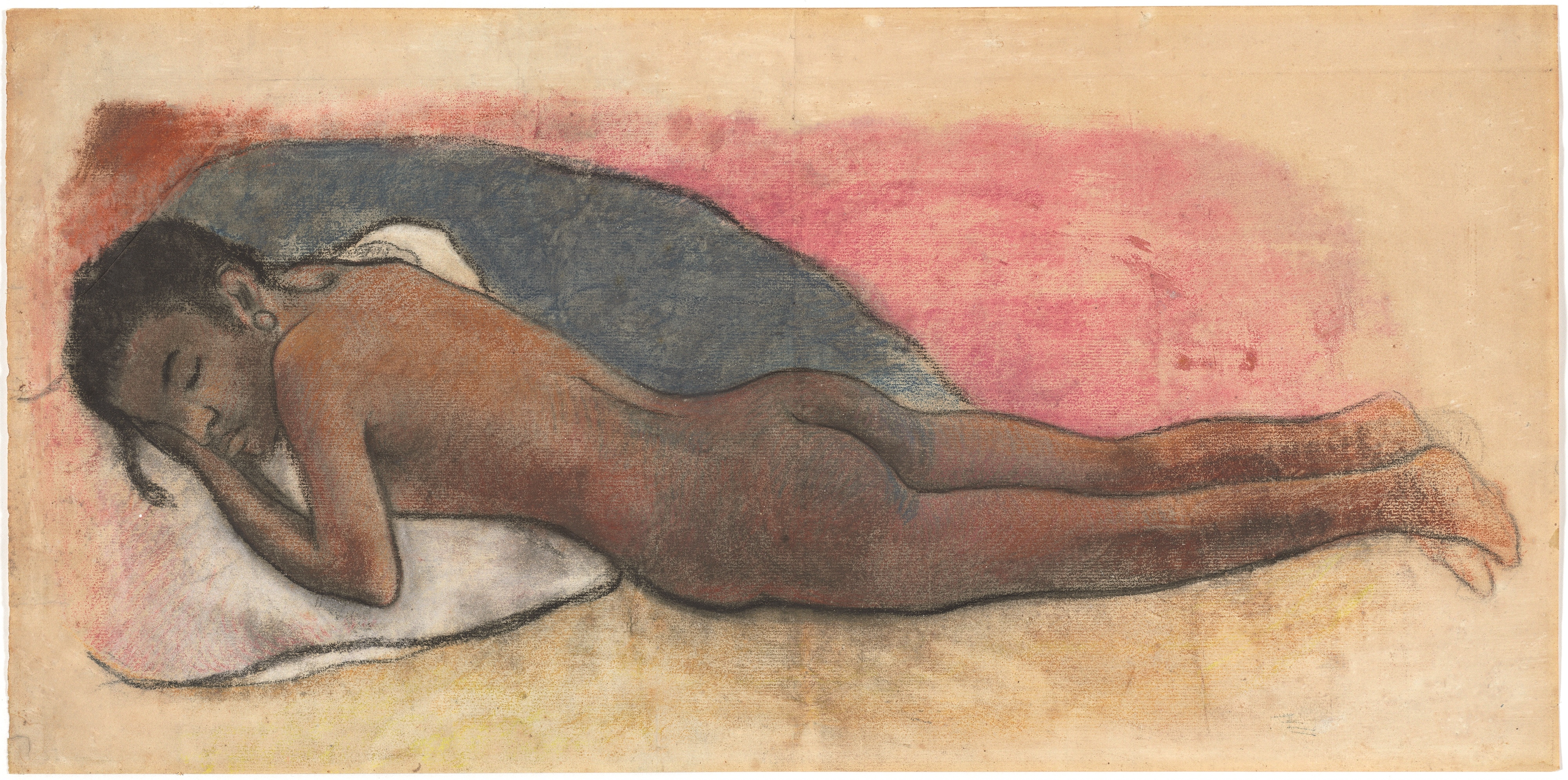 Paul Gauguin, Reclining Nude [recto], French, 1848 - 1903, 1894/1895, charcoal, black chalk, and pastel on laid paper, Gift (Partial and Promised) of Robert and Mercedes Eichholz, in Honor of the 50th Anniversary of the National Gallery of Art